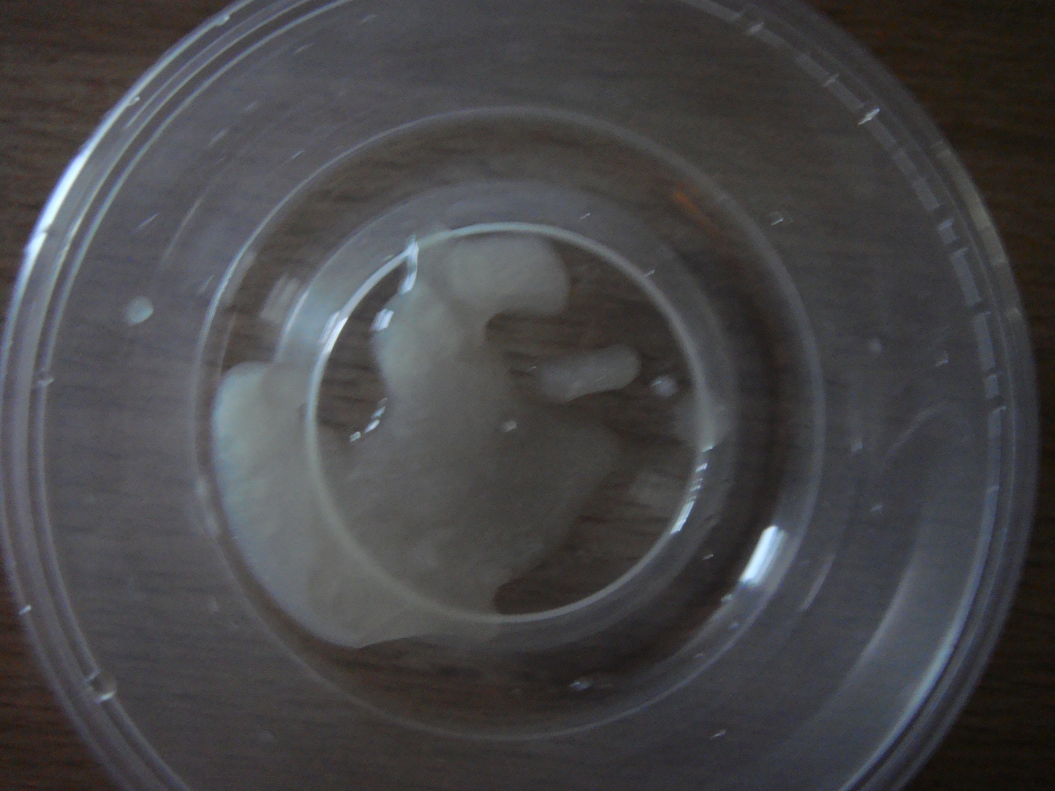 A good quality human semen(Male 21 Years) after removal of pre-ejaculate. Cloudy white color. Stored in sperm bank for progeny.